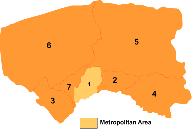 Map of Bayan Nur in Inner Mongolia